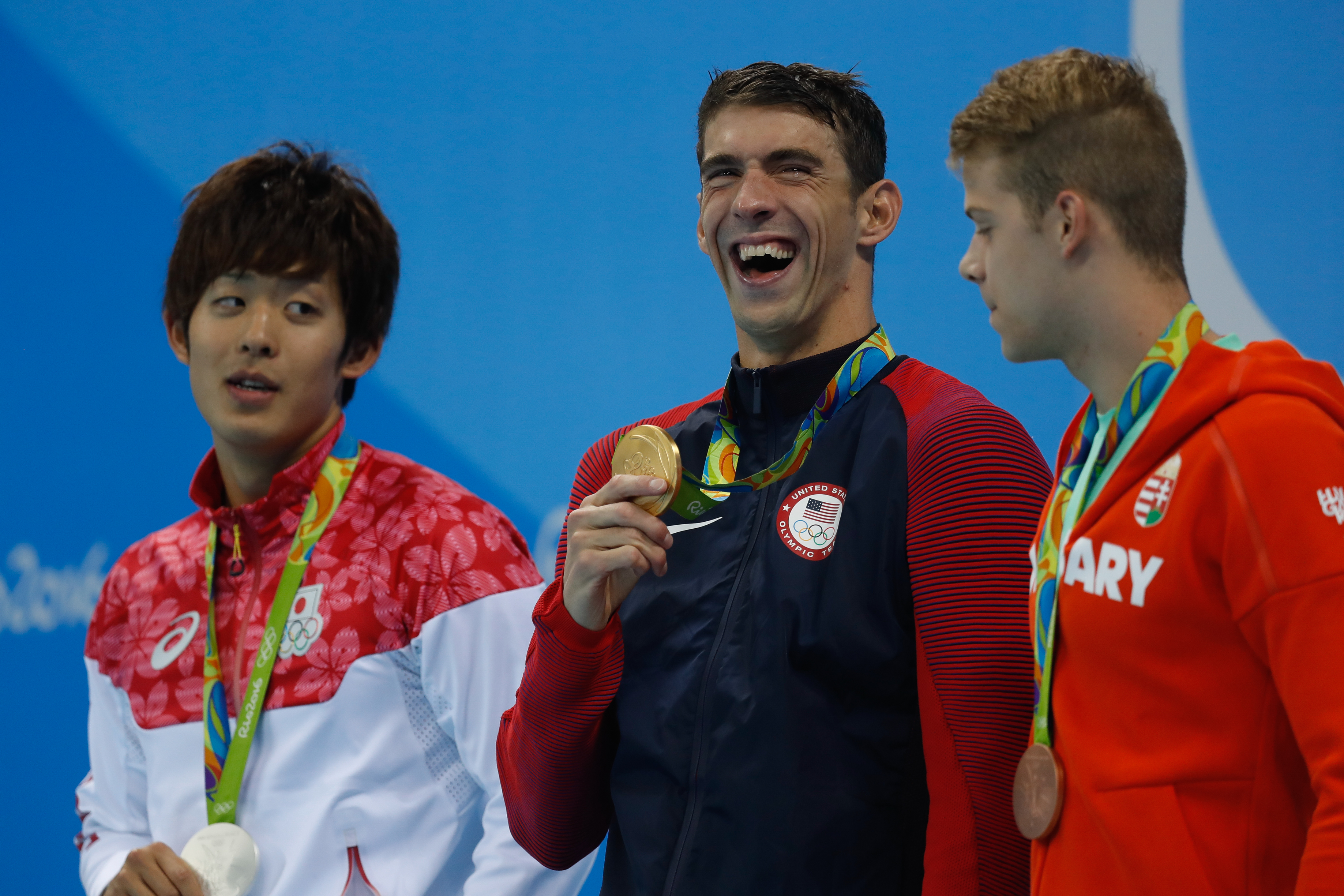 Rio de Janeiro - Michael Phelps, dos Estados Unidos, ganha sua 20ª medalha de ouro olímpica, nos 200m nado borboleta, nos Jogos Rio 2016. (Fernando Frazão/Agência Brasil)